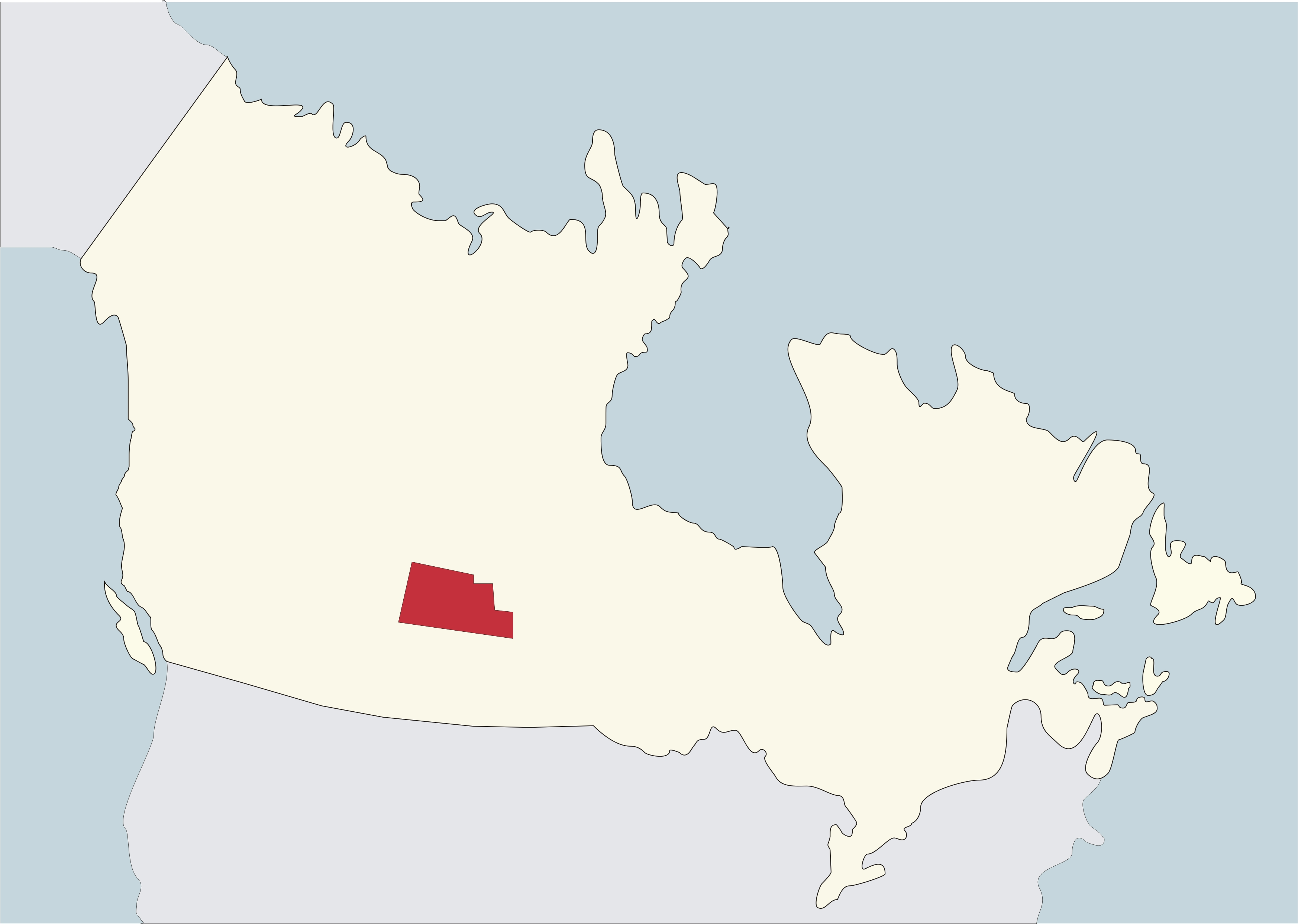 Map of the Roman Catholic Diocese of Prince Albert in Canada